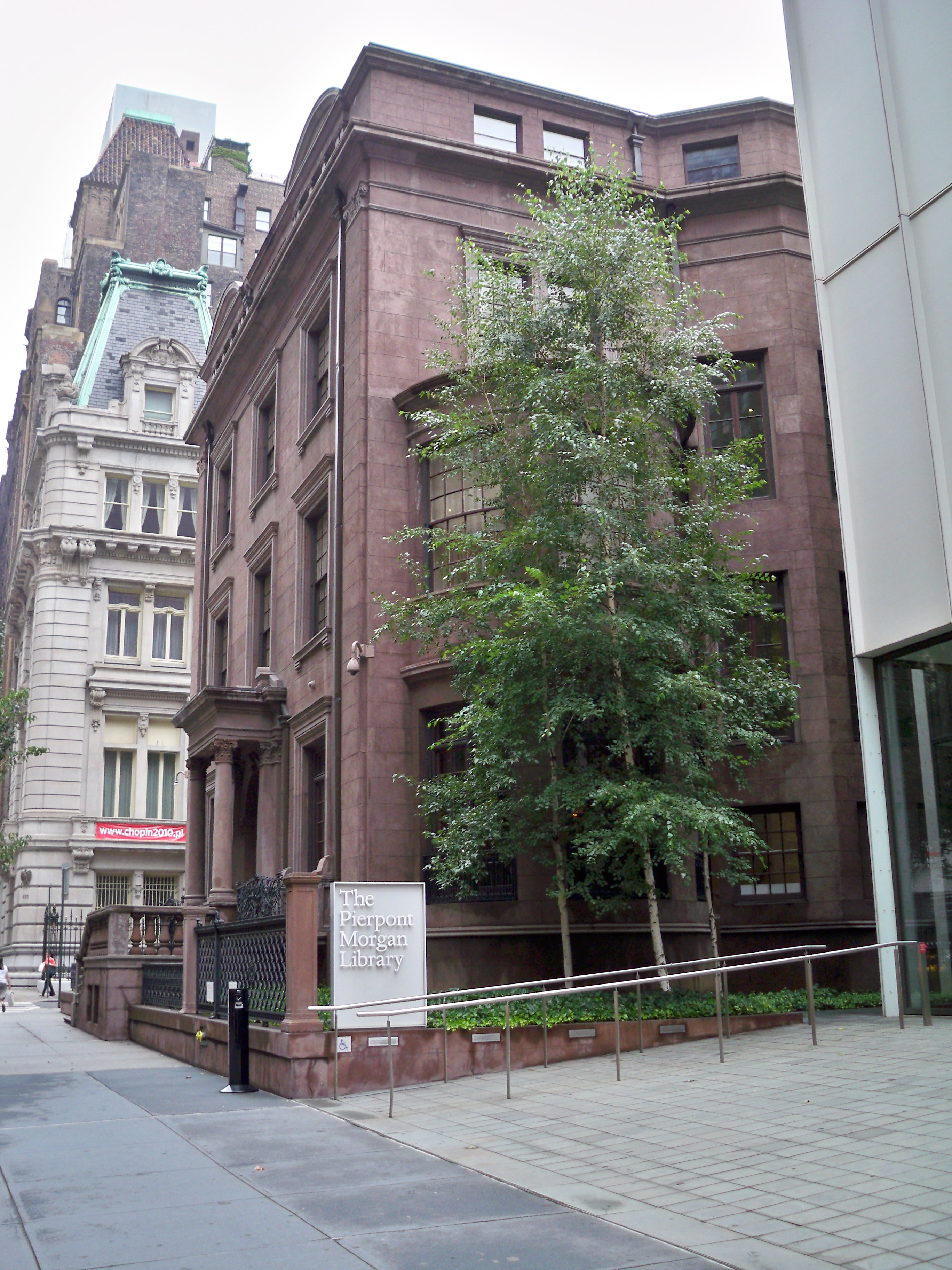 House formerly belonging to Jack Morgan, currently part of the J.P. Morgan Library and Museum.